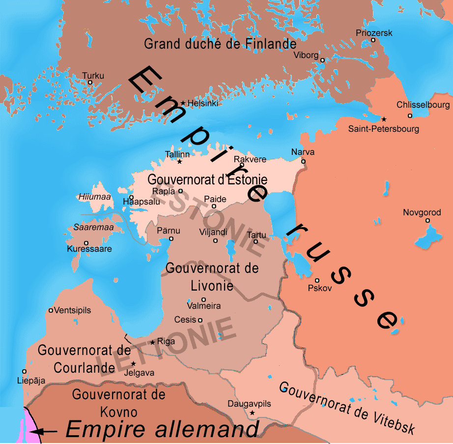 The Baltic provinces of the Russian Empire in the end of 19th century (french version)